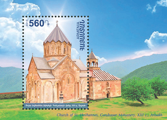 The monastery of Gandzasar in Artsakh/Karabakh depicted on a 2013 Armenian stamp